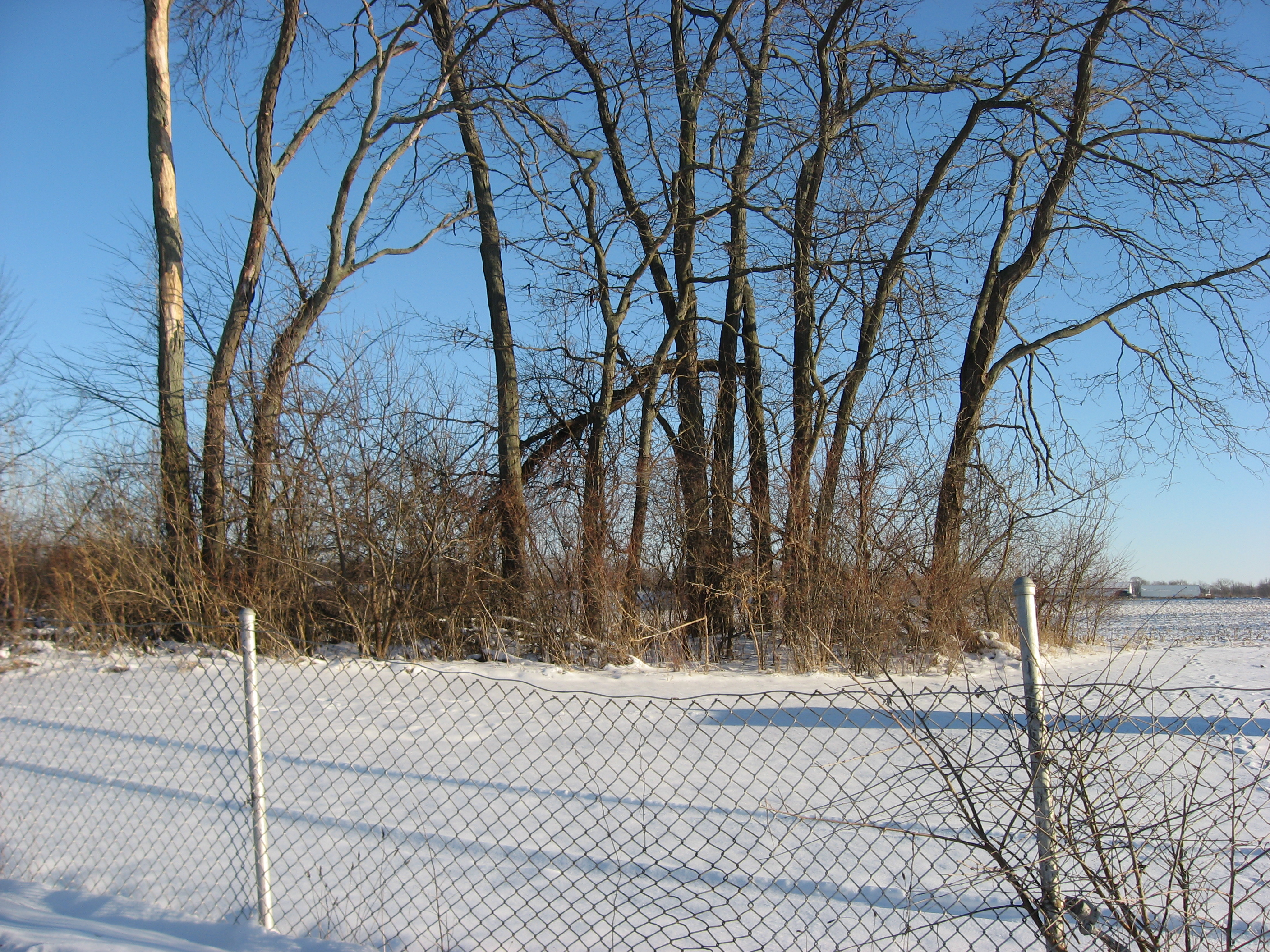 Site of the Valentine Wilson House, located off Interstate 70 north of Summerford in Somerford Township, Madison County, Ohio, United States. Built in 1820, it is listed on the National Register of Historic Places, even though it has been destroyed.